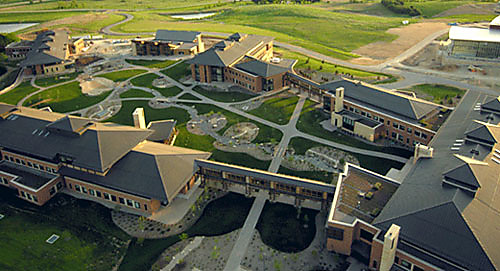 Epic Systems Corporation Office